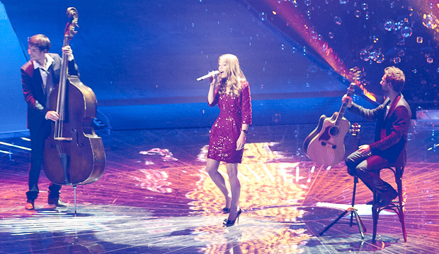 Anna Rossinelli from Switzerland performing "In Love for a While" at Eurovision Song Contest 2011 in Düsseldorf